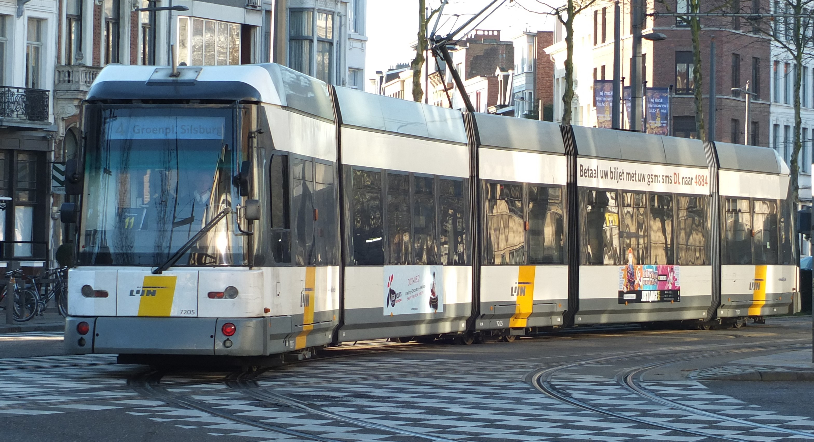 HermeLijntram 7204 in Antwerp